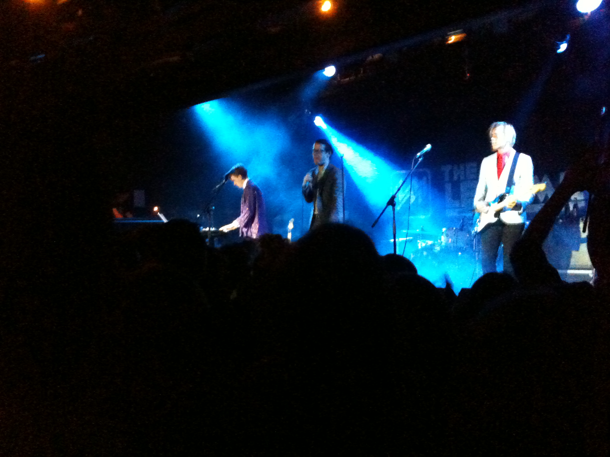 English indie rock band Spector performing at The Leadmill, Sheffield in October 2012.